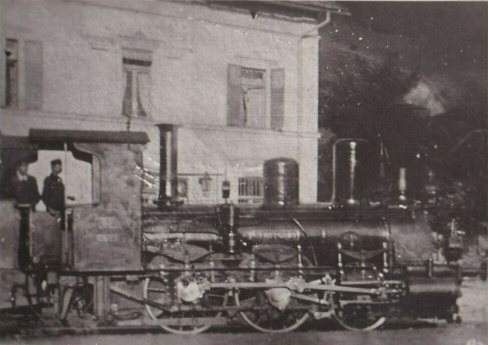 The Royal Bavarian State Railways (Königliche Bayerische Staats-Eisenbahnen or K.Bay.Sts.B). .. The locomotive is of the Bayern B VI class … Image is a Marklin model version